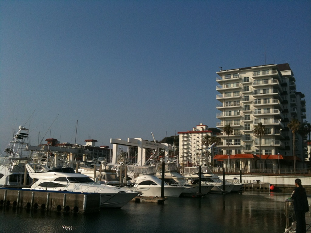 Zushi Marina, Zushi city, Kanagawa, Japan